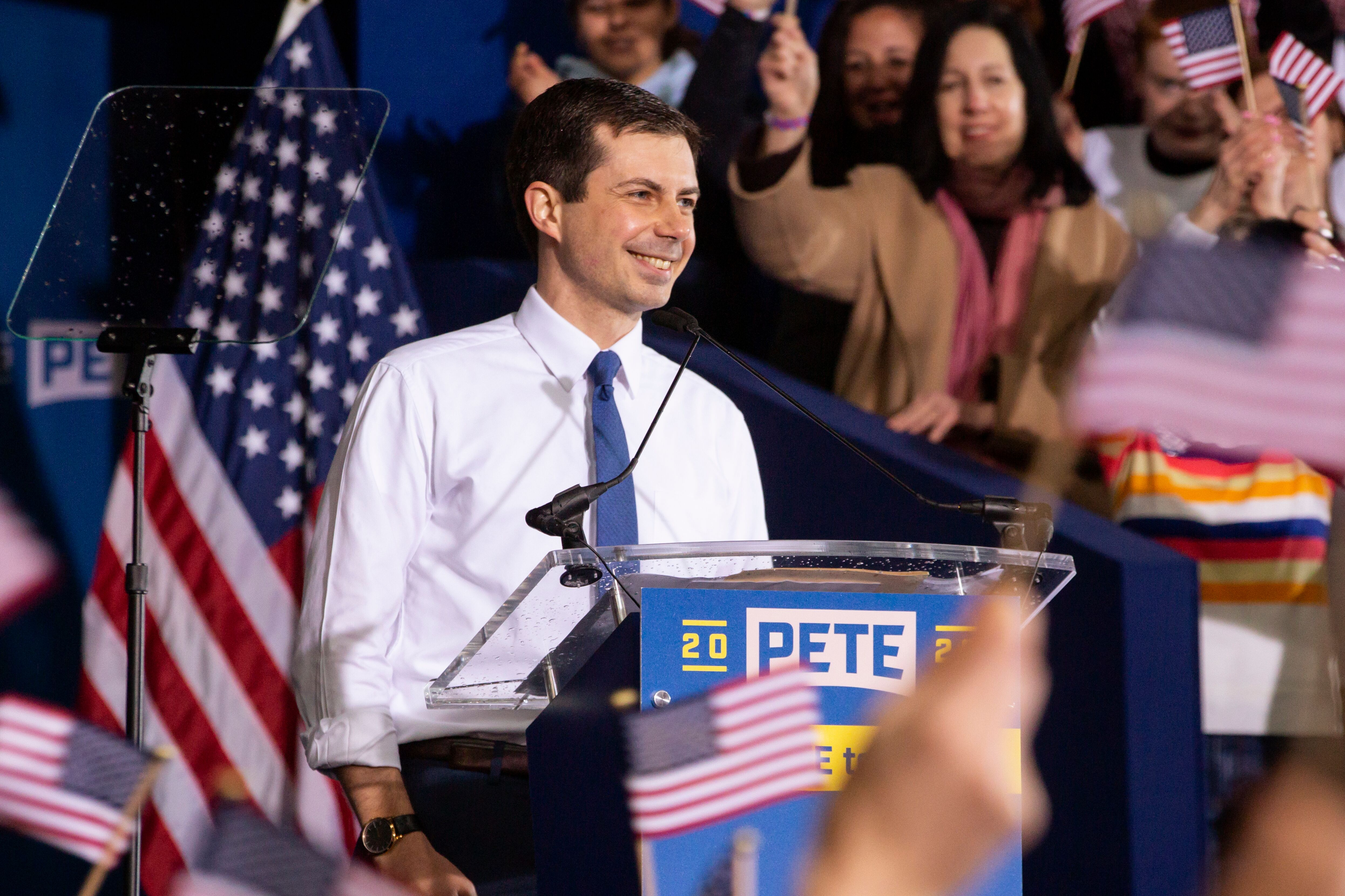 Pete Buttigieg announces his candidacy for the 2020 Democratic nomination for the presidency.